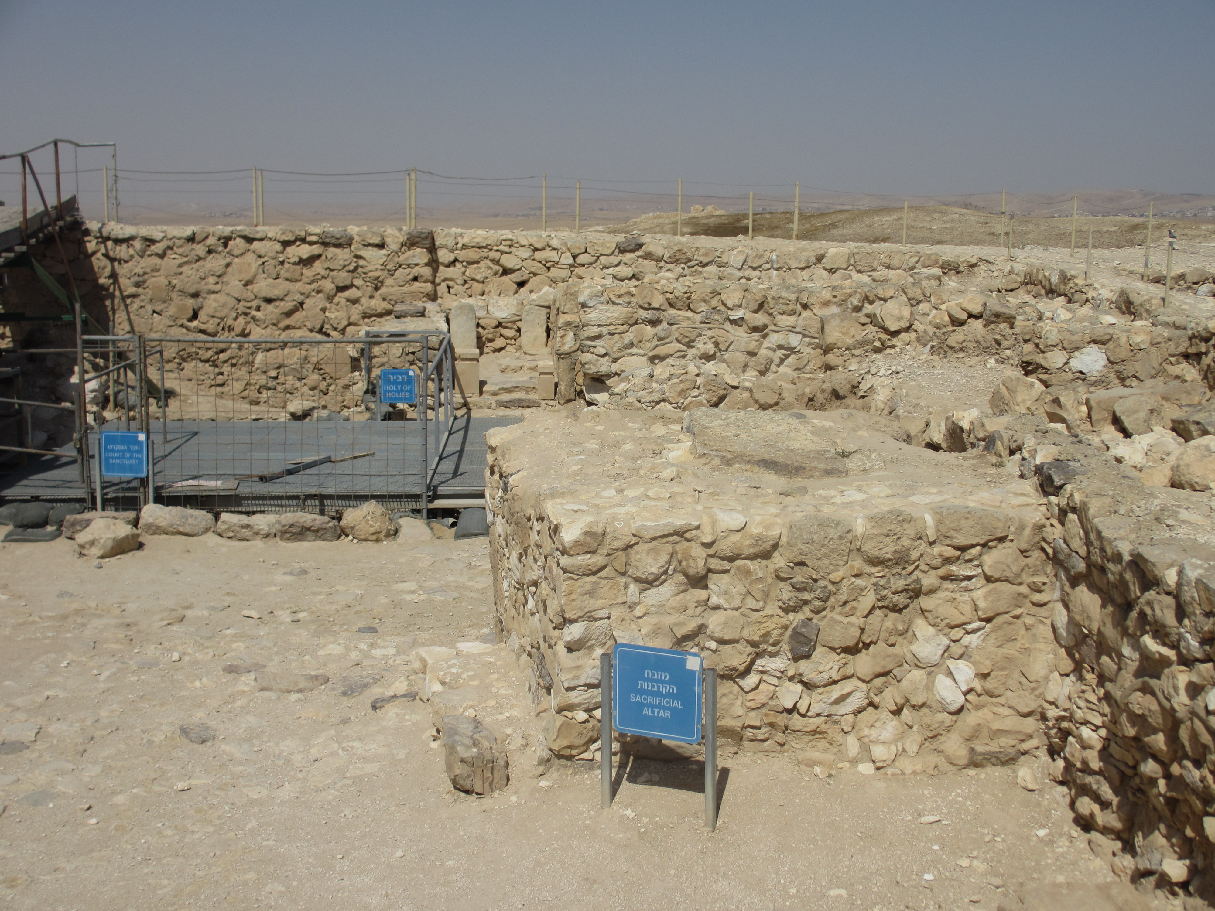 Altar and Debir in Israelite Arad, Neguev, Israel